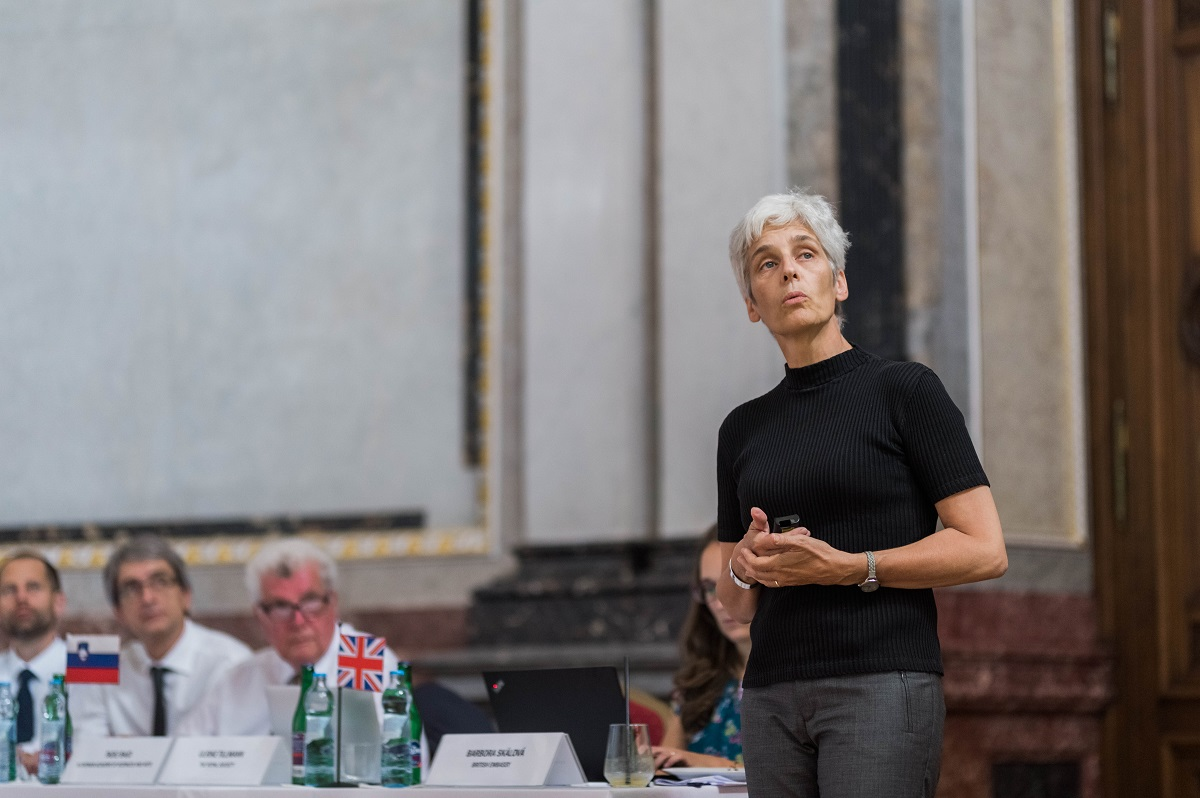 Ulrike Luise Tillmann FRS (born 12 December 1962) is a mathematician specializing in algebraic topology, who has made important contributions to the study of the moduli space of algebraic curves.